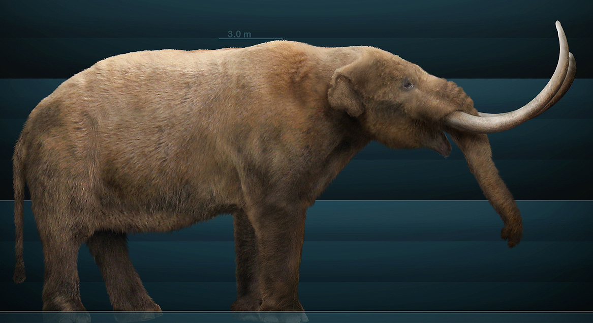 Graphical reconstruction of Mammut americanum based on bony structure and paleontological texts